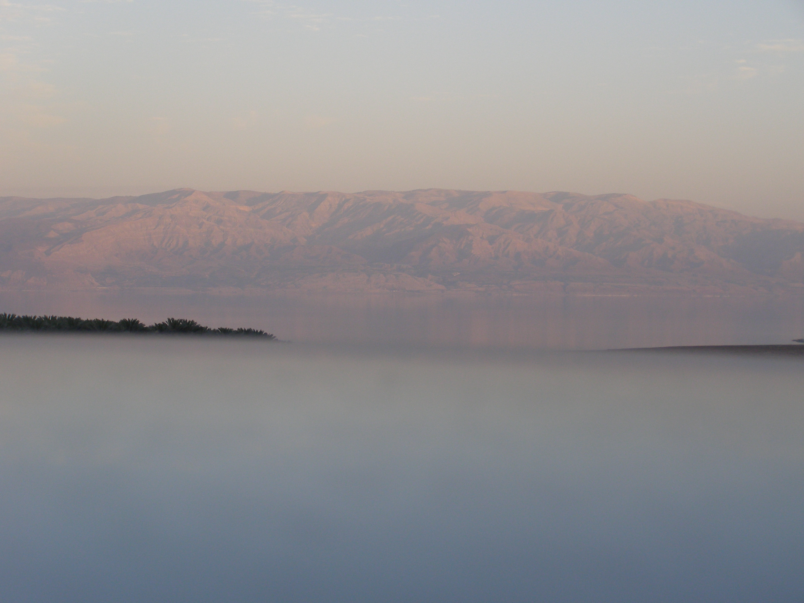 Edom Mountains. A view from the Israeli shore of the Dead Sea.